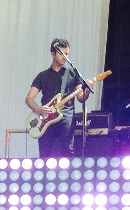 Paramore member Jon Howard live in Oklahoma City